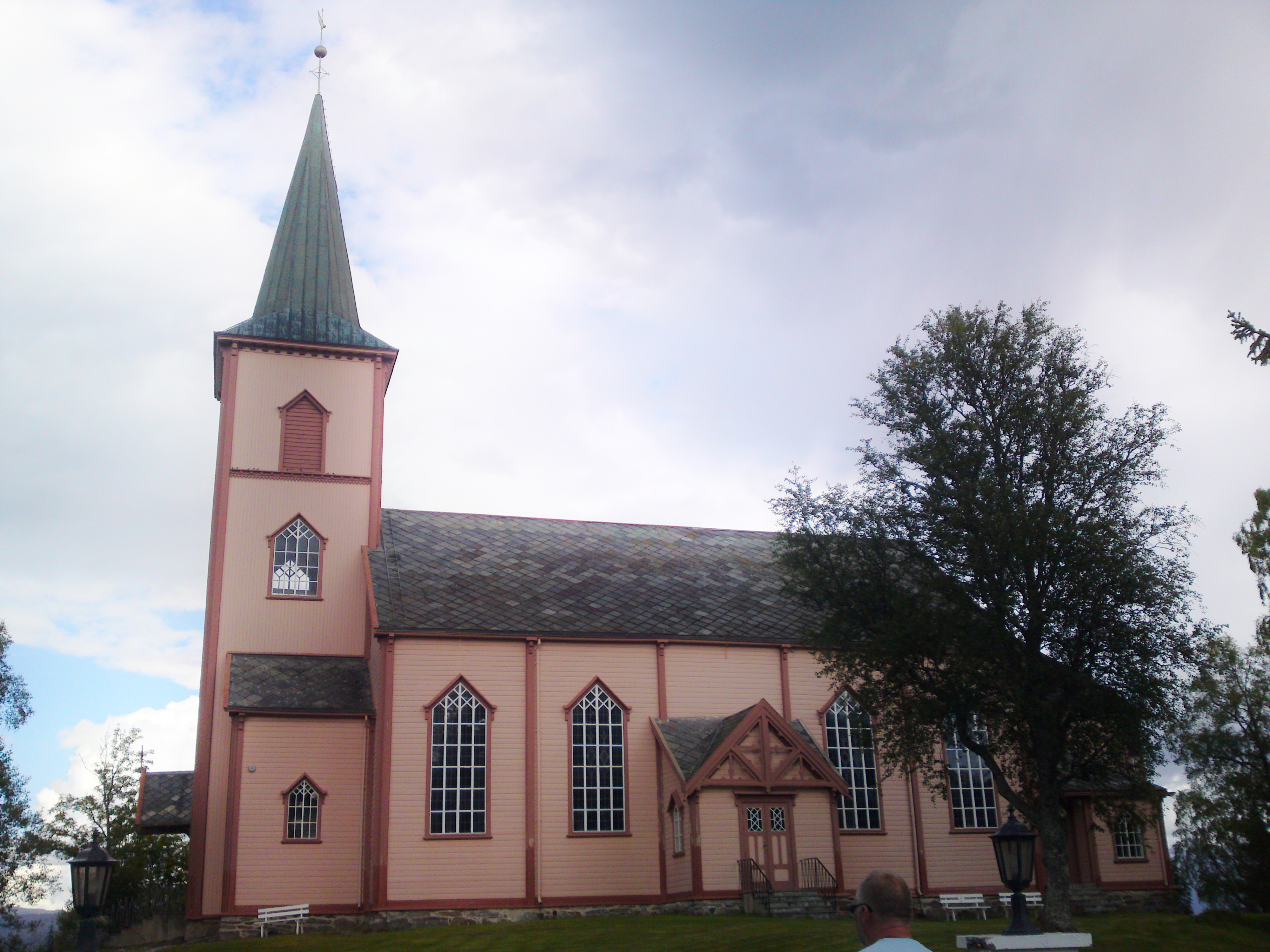 Updated image from 2011.